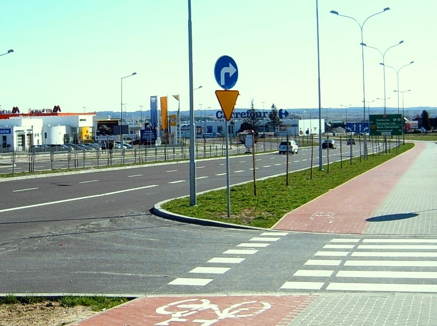 John Paul II Av. in Zamość (Poland); a part of the main (eastern) beltway of town (National road 17)